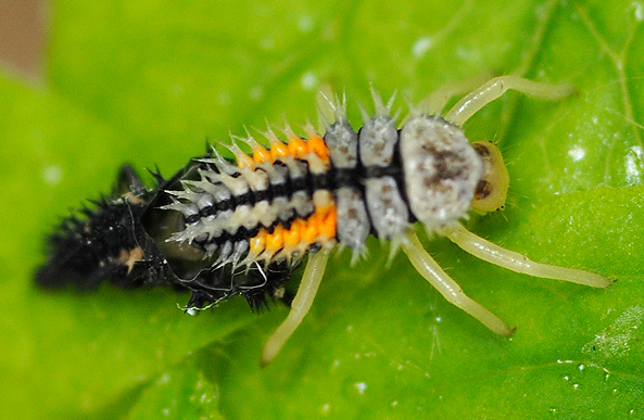 ladybug after moulting